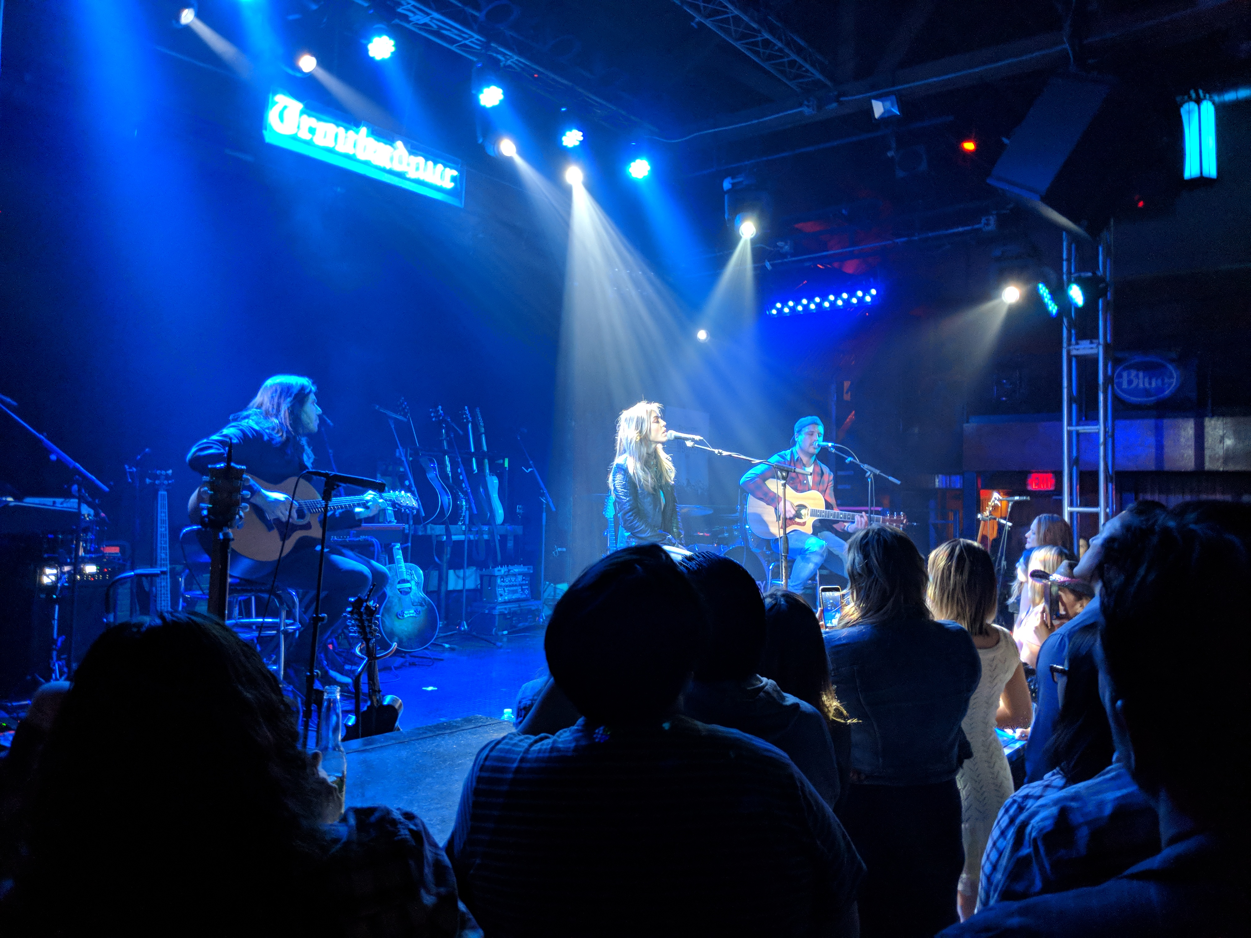 Brown & Gray playing at The Troubadour in Los Angeles as part of SiriusXM's The Highway Finds tour.